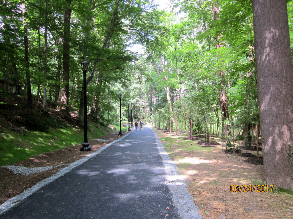 A view of the newly completed trail through the Klingle Valley, on the day of opening to the public, June 24, 2017.